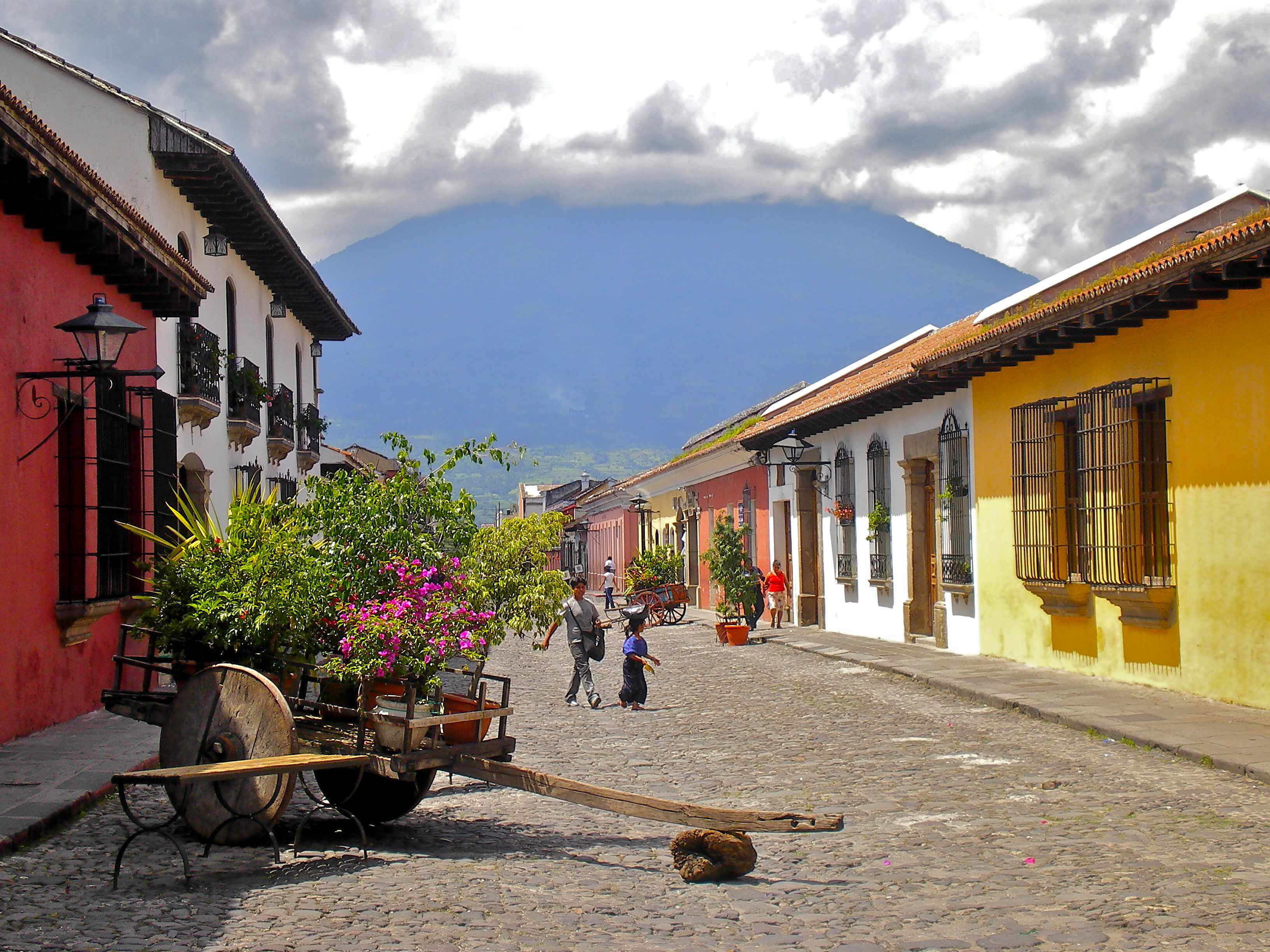 Calle del Arco